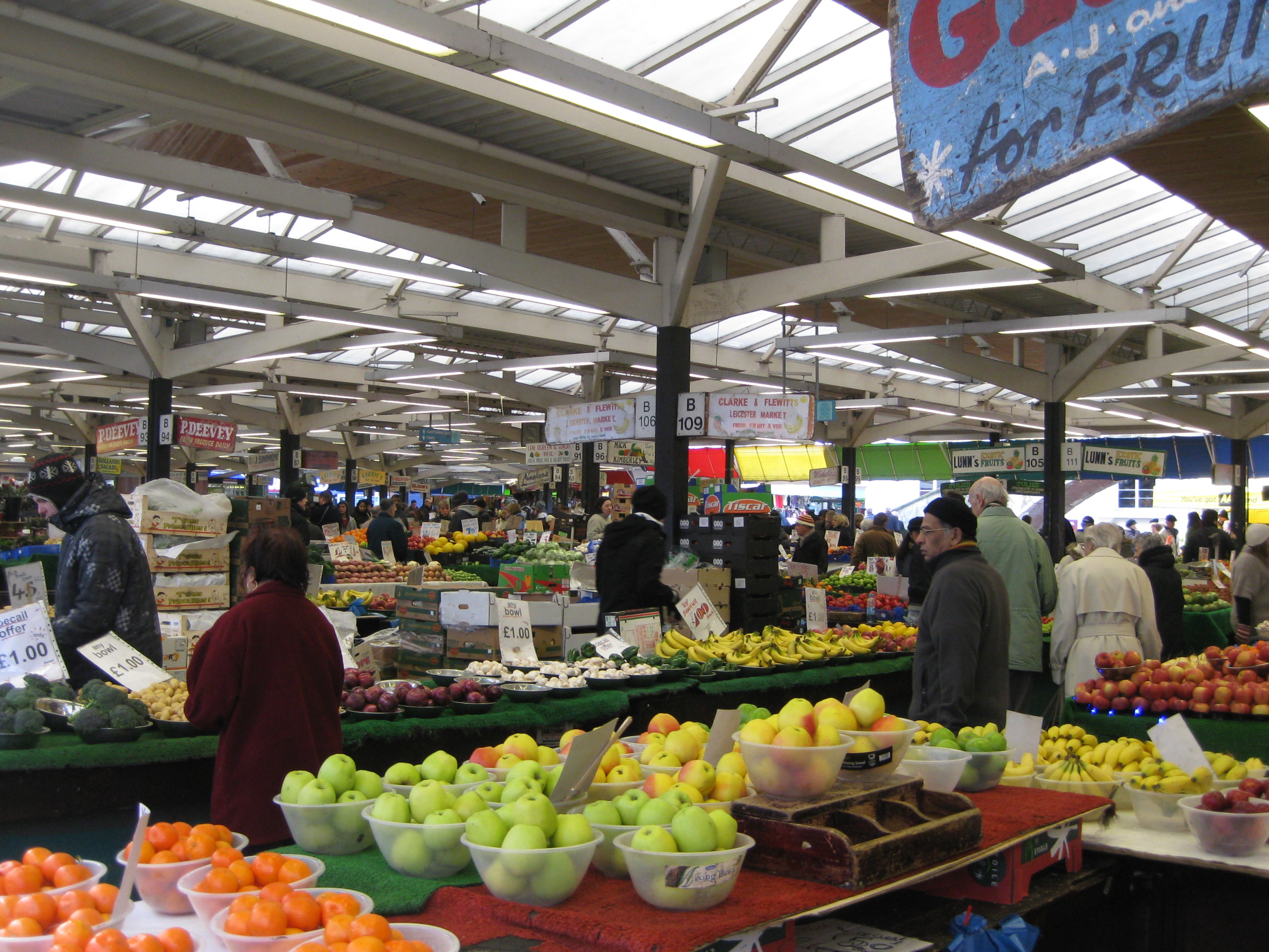 Leicester Market, Leicester, UK